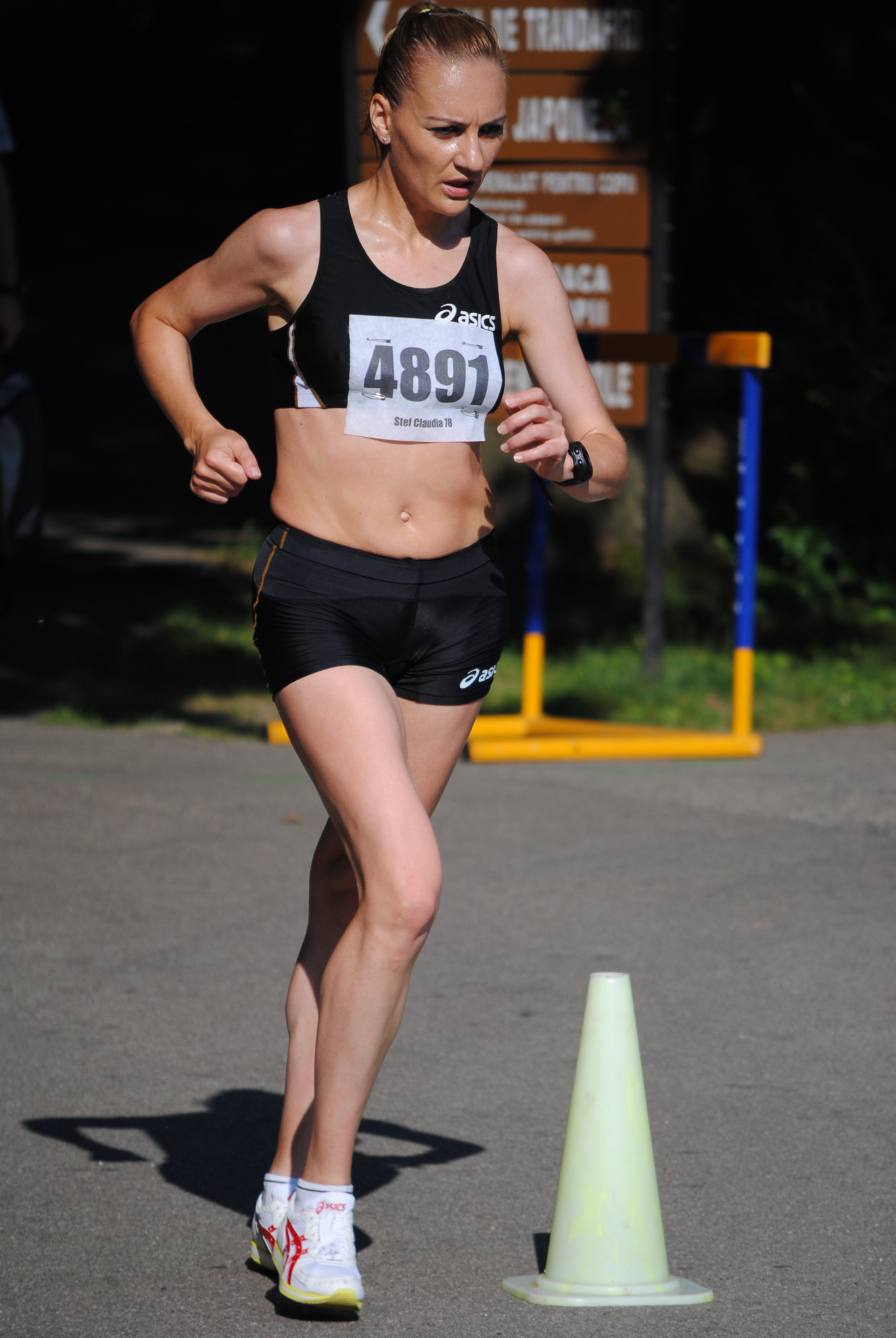 Stef Caludia during Romanian National Race-Walking Championships 50Km, 24/06/2011